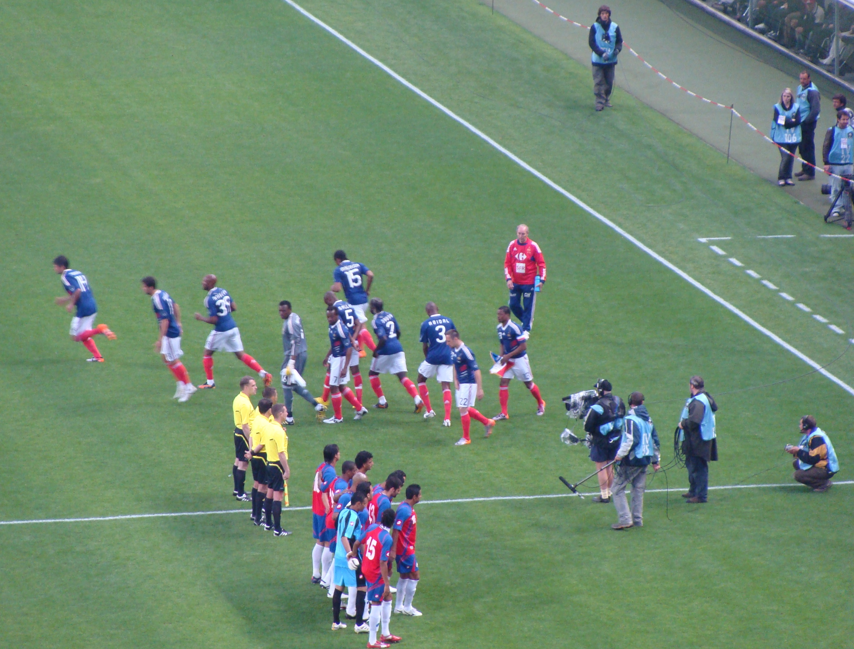 France - Costa Rica 2010